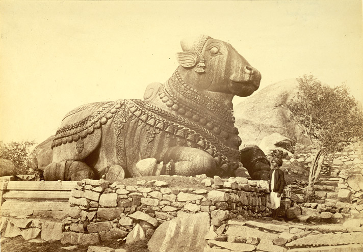 2nd Century A.D sculpture of Nandi [Bull]